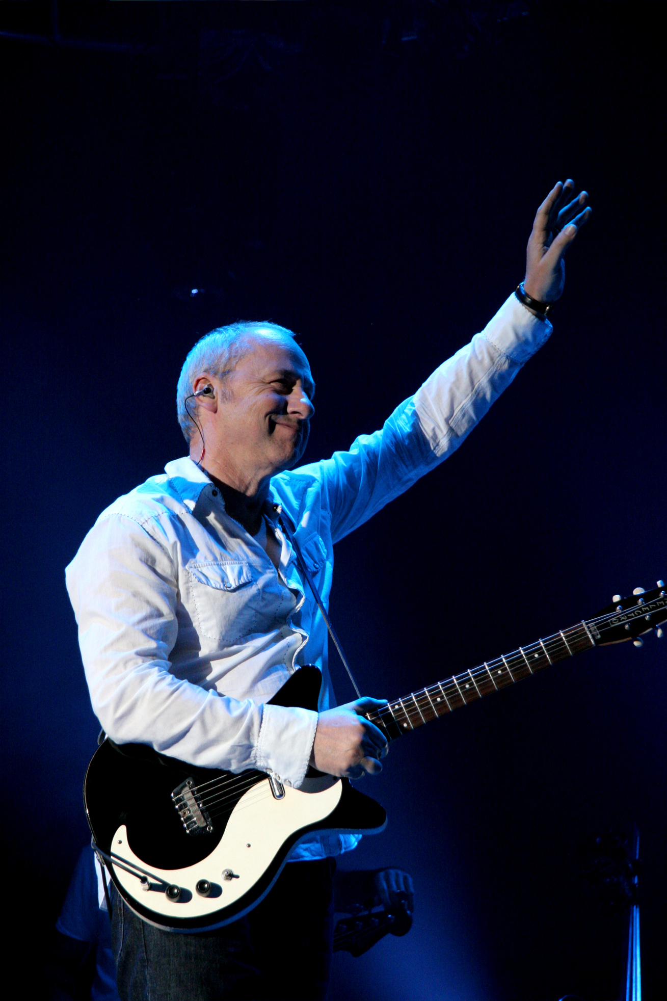 Mark Knopfler, Ahoy 2006, foto: Chris Kuhl /